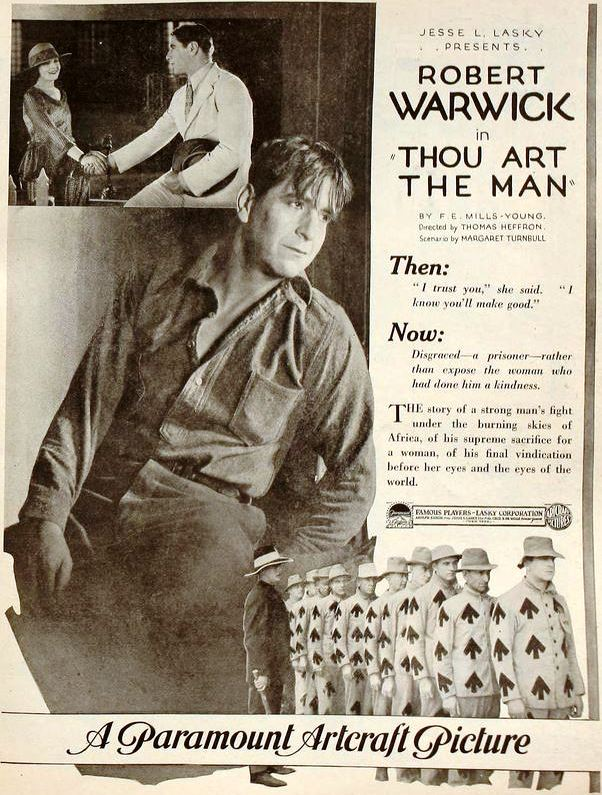 Advertisement for the American drama film Thou Art the Man (1920) with Robert Warwick and Lois Wilson, on page 3189 of the April 10, 1920 Motion Picture News.